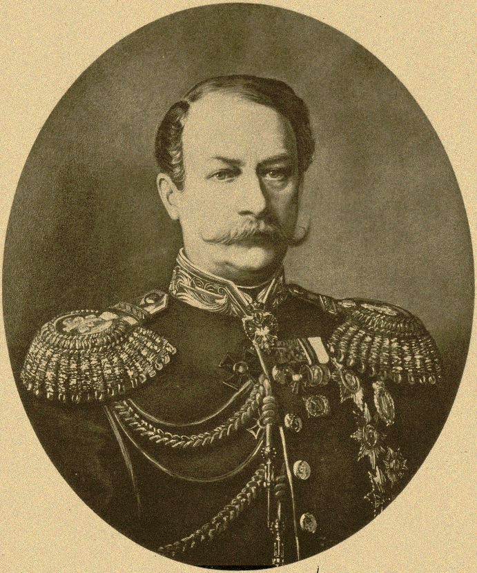 General Alexander Yegorovich Timashev (1818-1893), minister of the Russian Empire